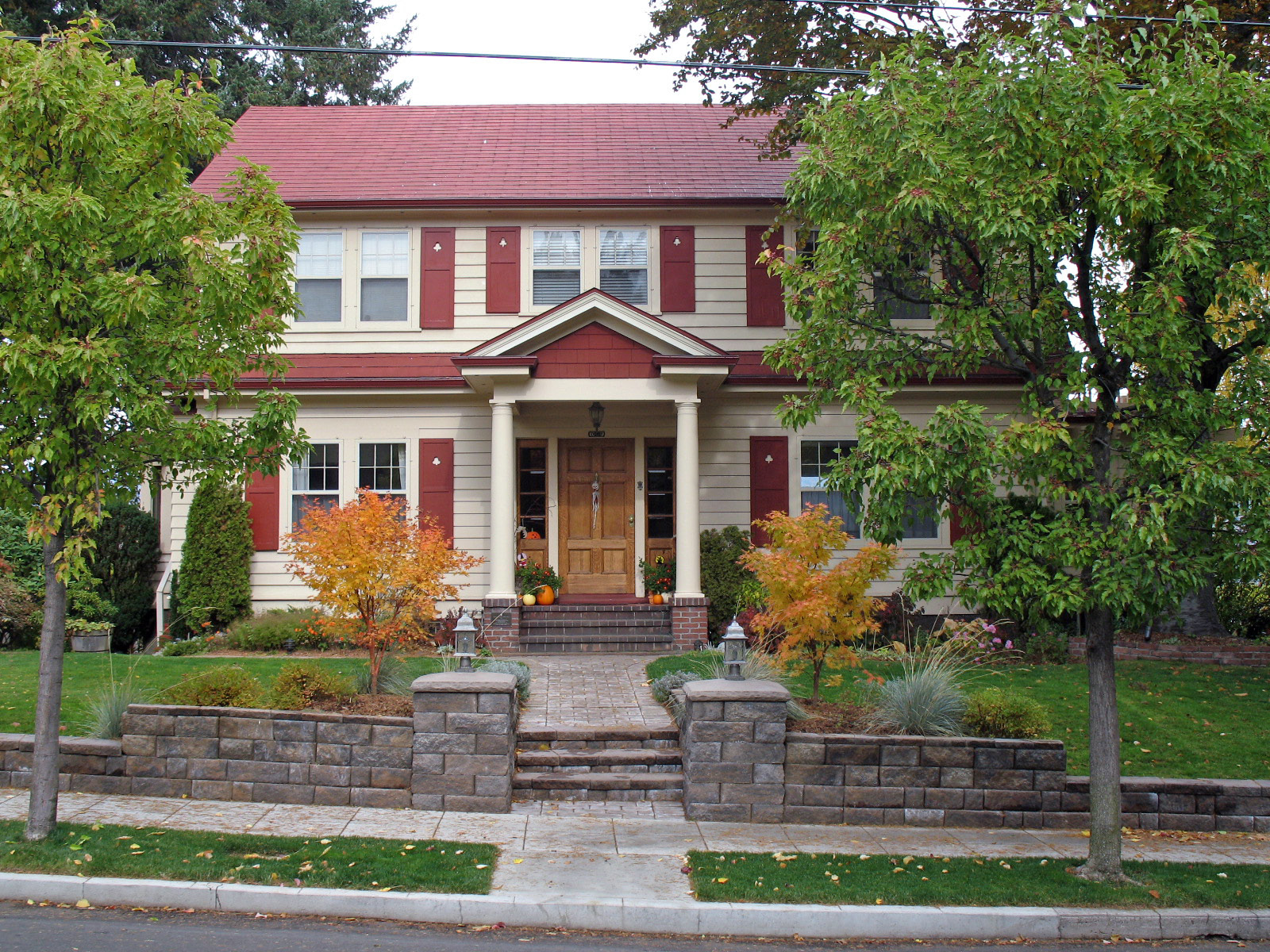 Lester and Hazel Murphy House and gardens, in Hood River — on the National Register of Historic Places listings in Hood River County, Oregon. Lester and Hazel Murphy House, 1006 Sherman Ave, Hood River, OR. Photographed October 28, 2009 from the south side of Sherman Ave. between 10th and 11th St.